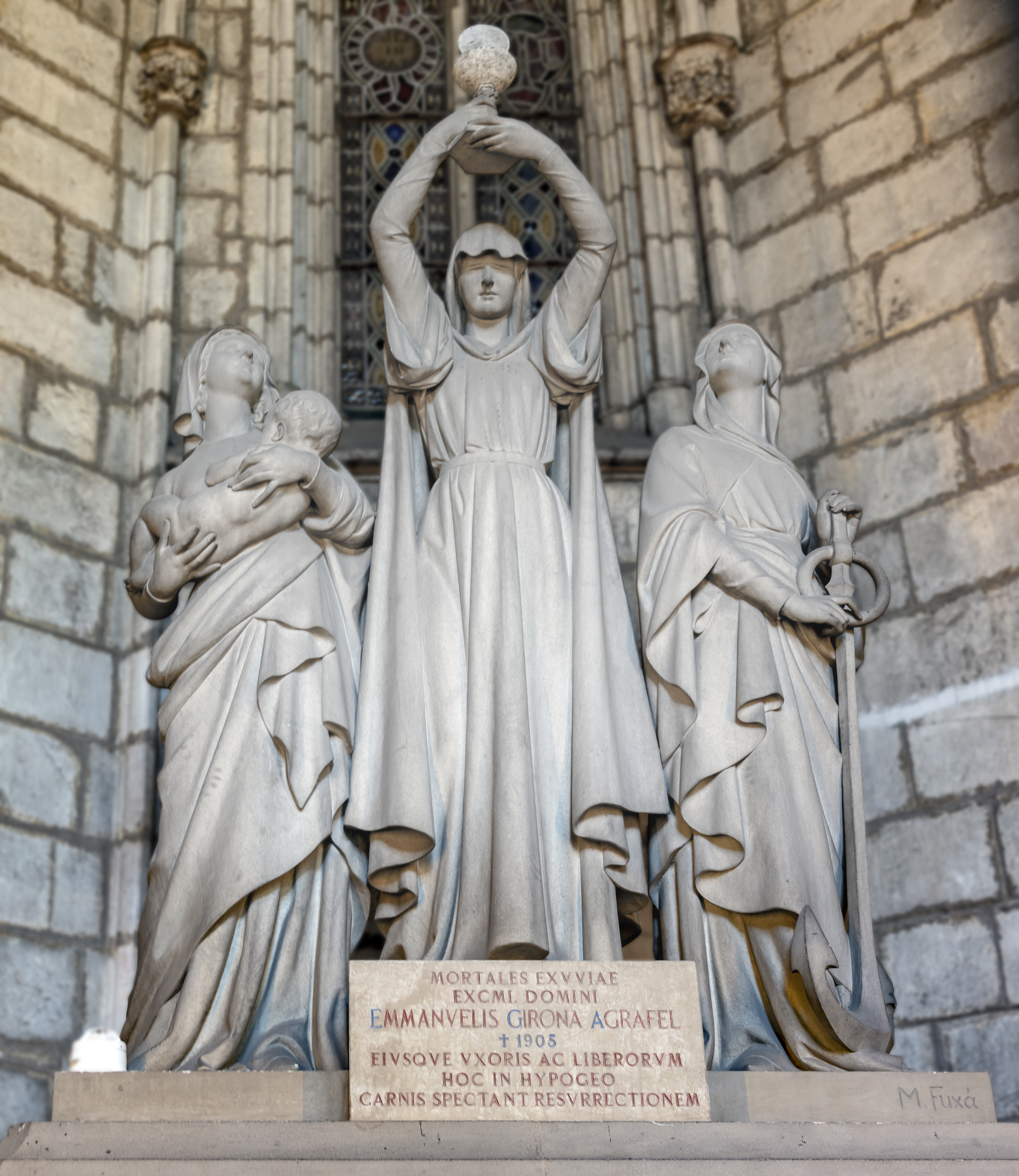 Cathedral of the Holy Cross and Saint Eulalia in Barcelona. The tomb of Manuel Girona, surmounted by a large marble statuary group of the Catalan sculptor Manel Fuxà, representing the theological virtues: Faith, Hope and Charity.